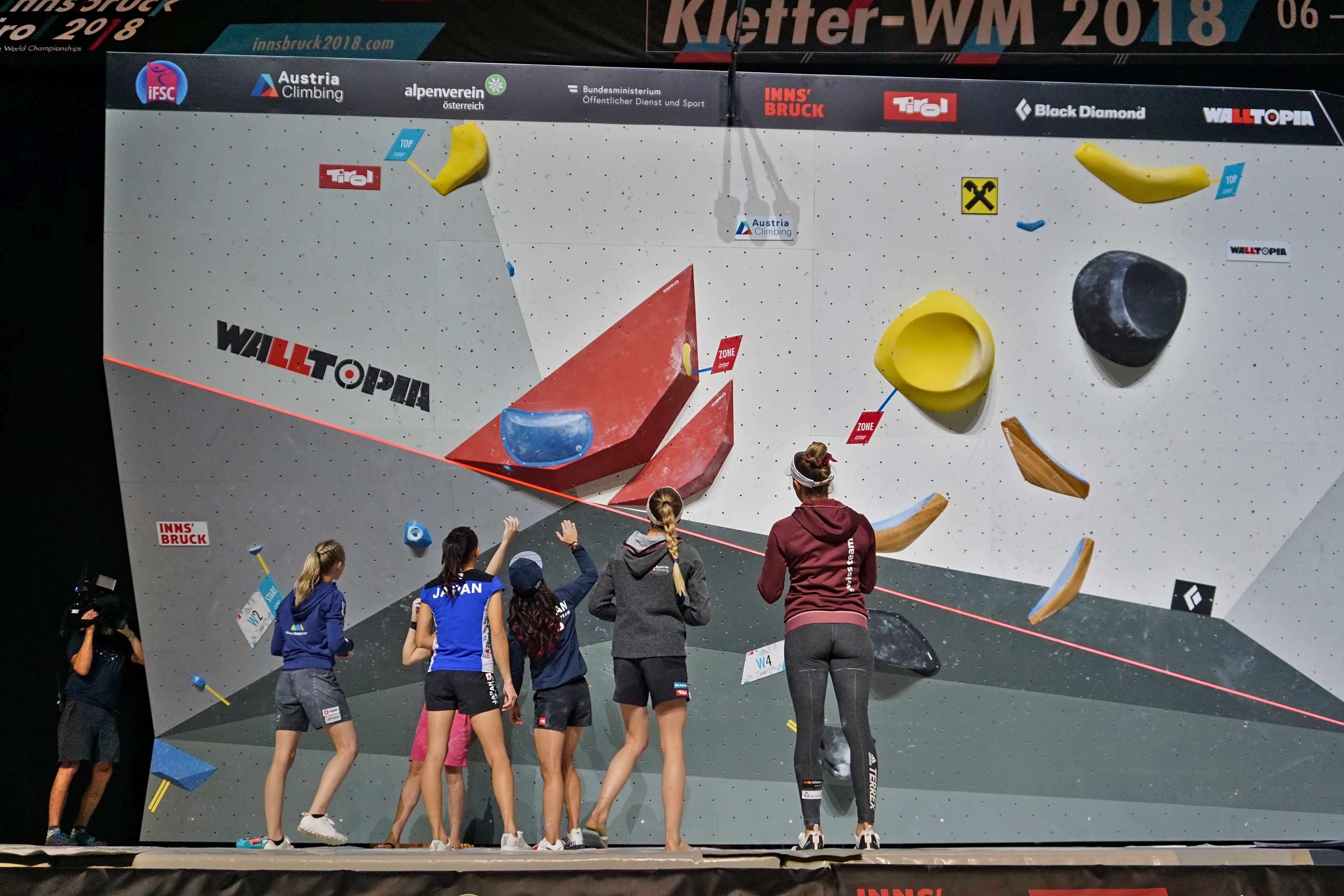 Climbing World Championships 2018 Boulder Final Woman observation